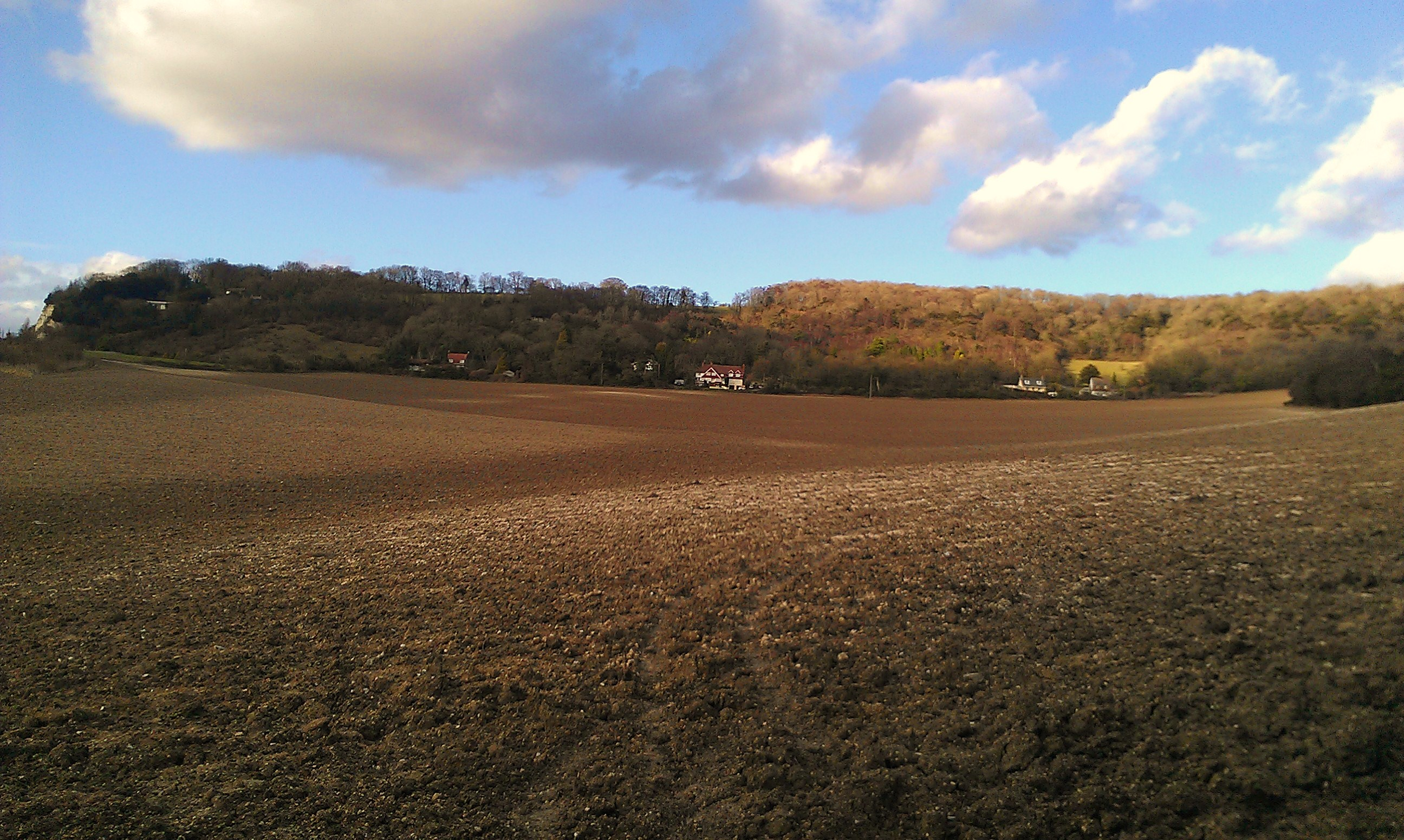 The field in which the Early Neolithic chambered tomb of Smythe's Megalith in Kent, one of the Medway megaliths, was discovered in the 19th century.